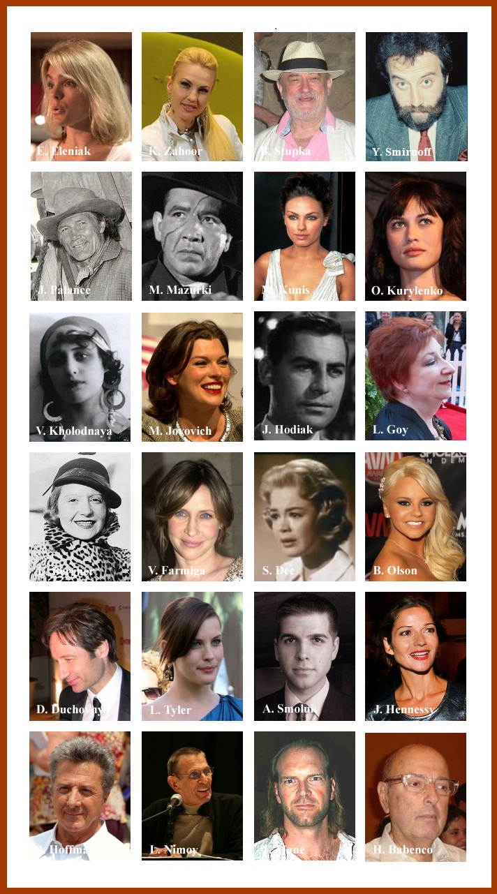 World famous actors and actresses related to Ukrainians or Ukraine by their (or theirs close family member) place of birth, ethnicity, culture or other related similarities.